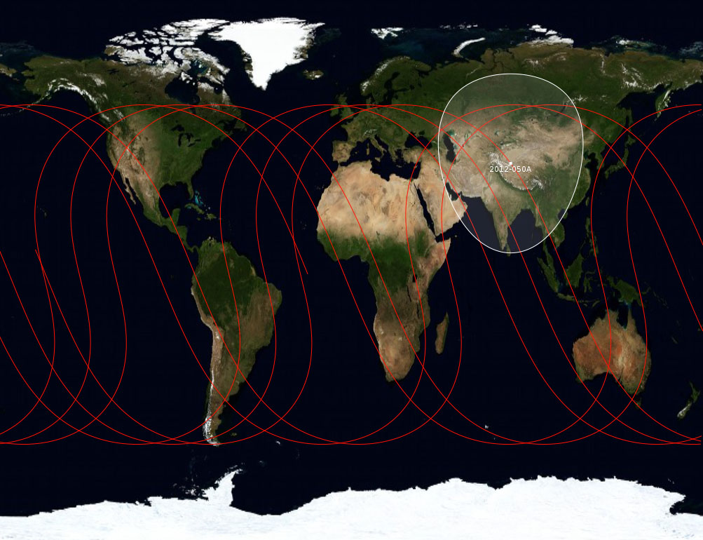 Ground track of satellite Beidou-M. Made from US government TLE data by GPLed program gpredict which plots the ground track over an public domain map of the world which originates from NASA.